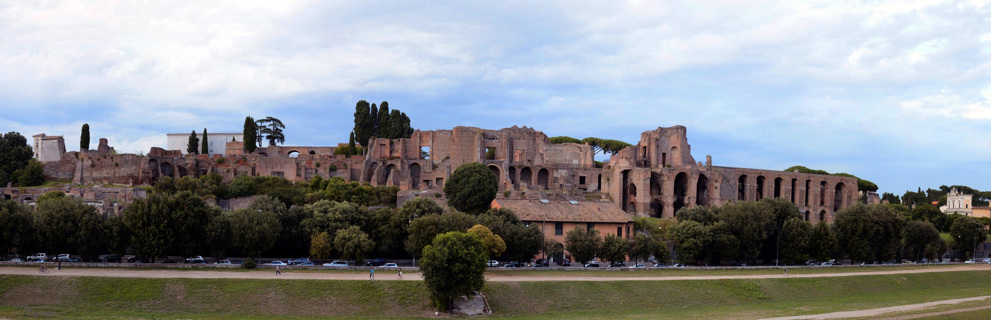 Panoramica Palatino